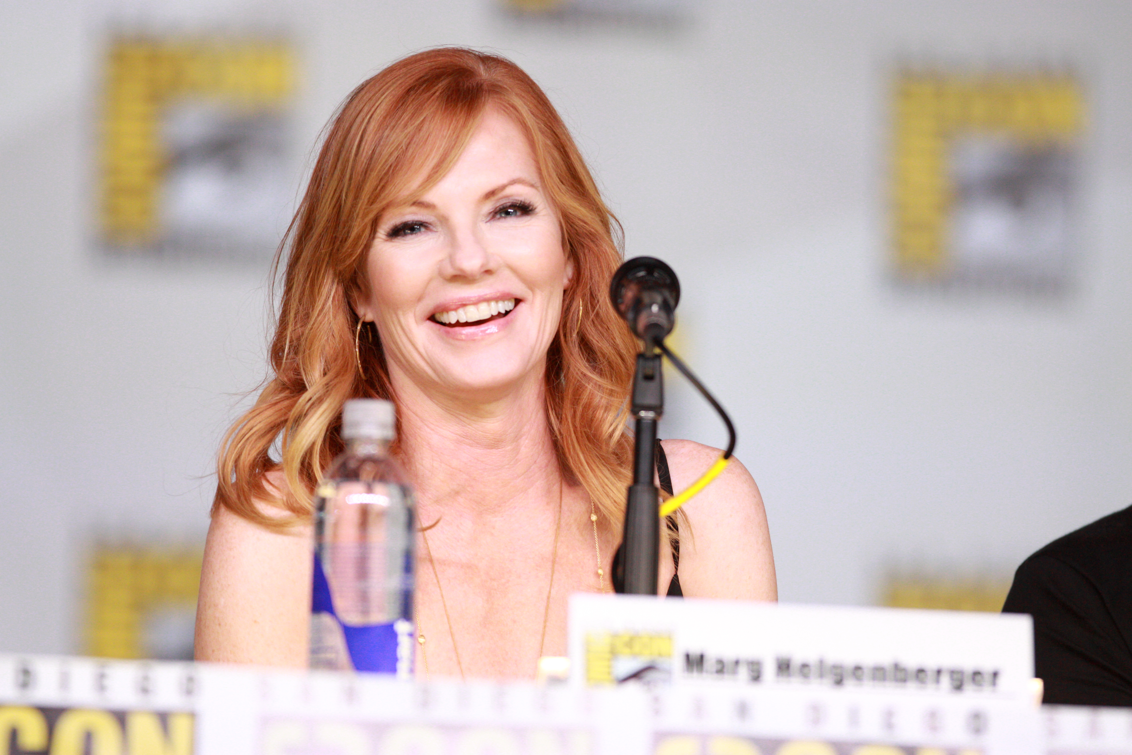 Marg Helgenberger speaking at the 2013 San Diego Comic Con International, for "Intelligence", at the San Diego Convention Center in San Diego, California.